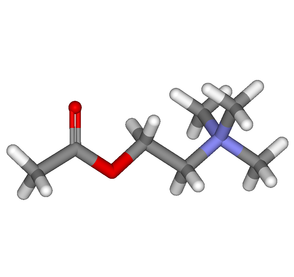 chemical structure of acetylcholine